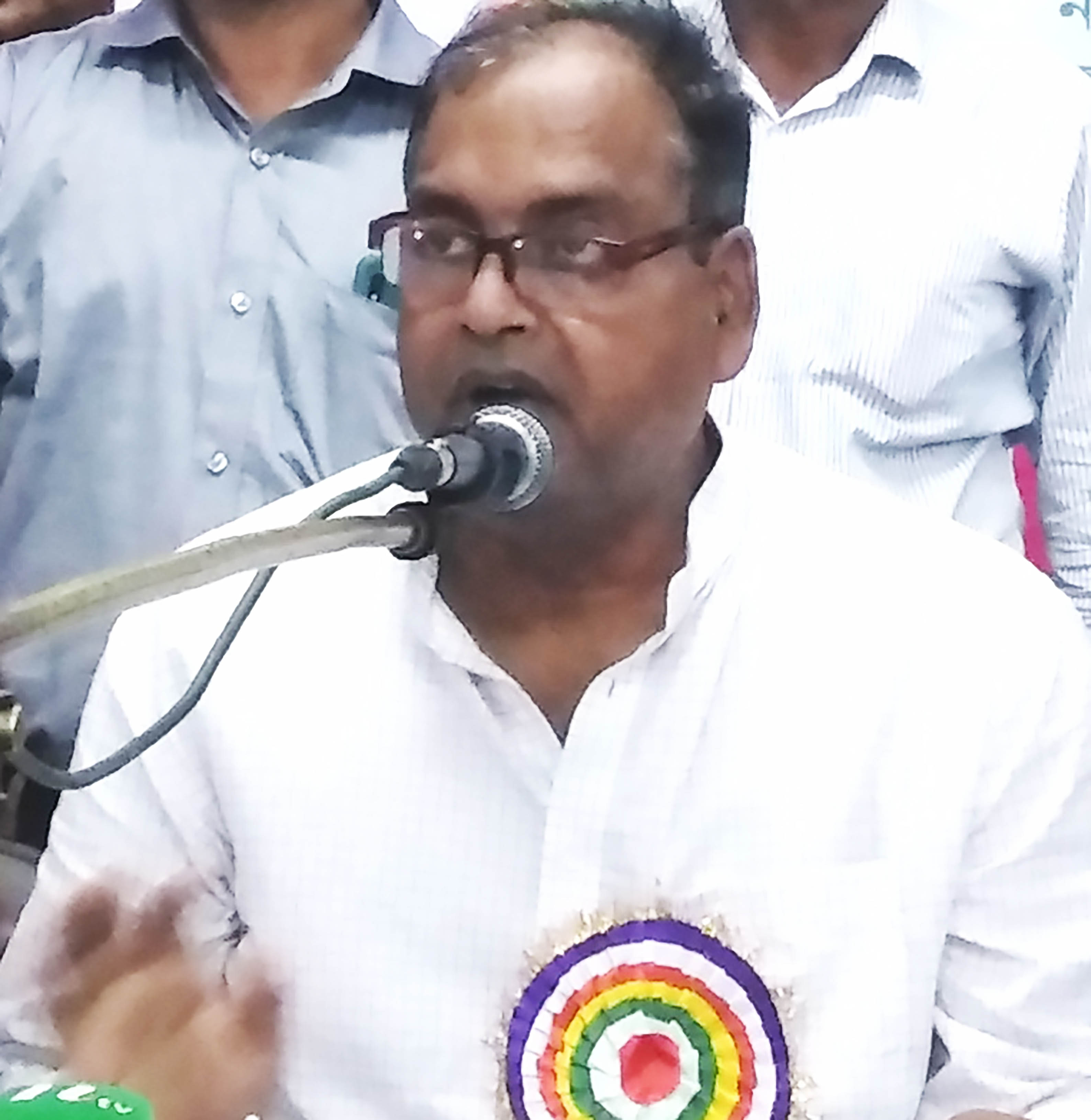 Shamsuzzaman Dudu, politician of BNP.